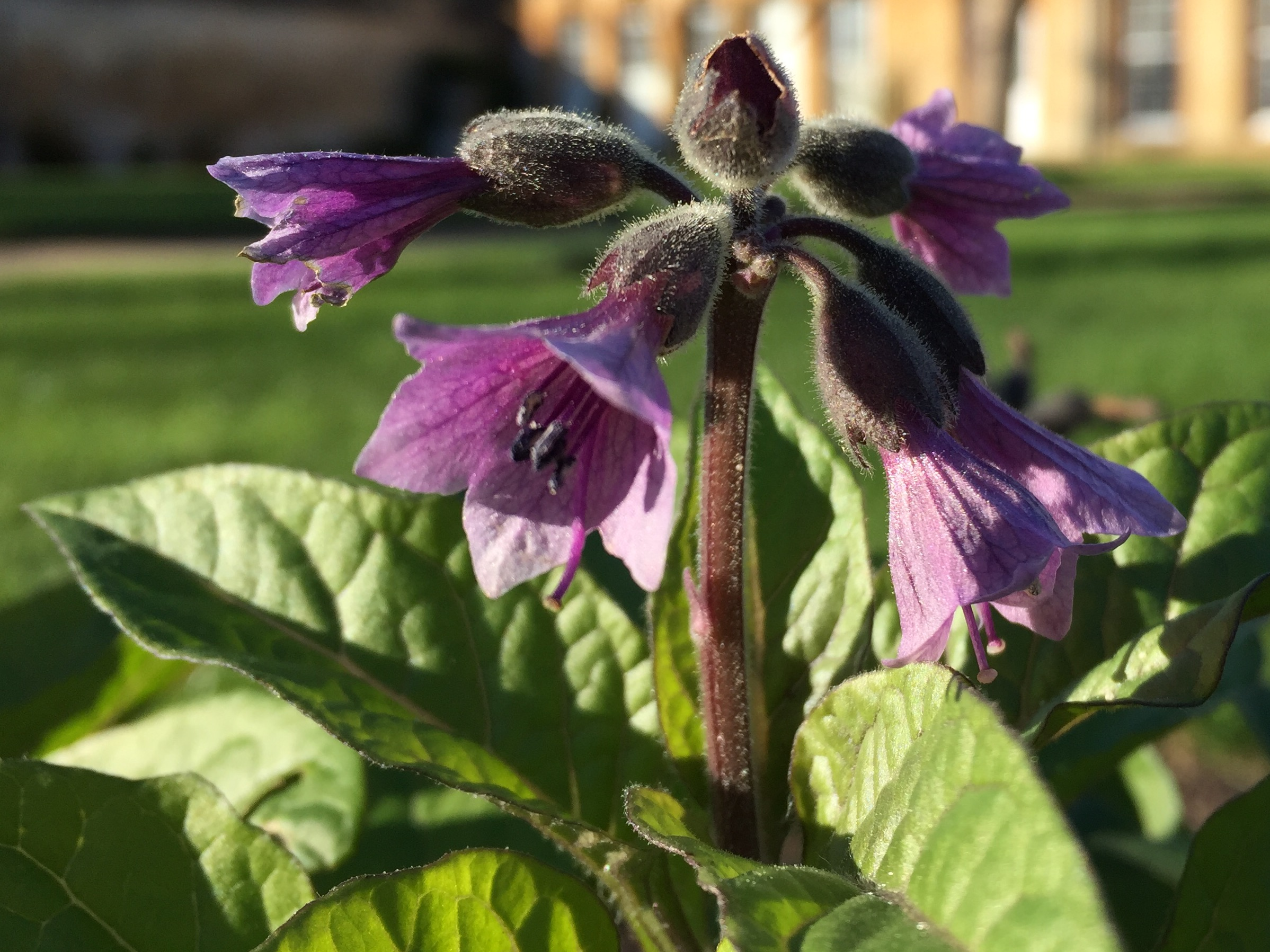 Physochlaina orientalis (M. Bieb.) G. Don (Solanaceae). Cultivated plant in flower in U.K. March 2017.